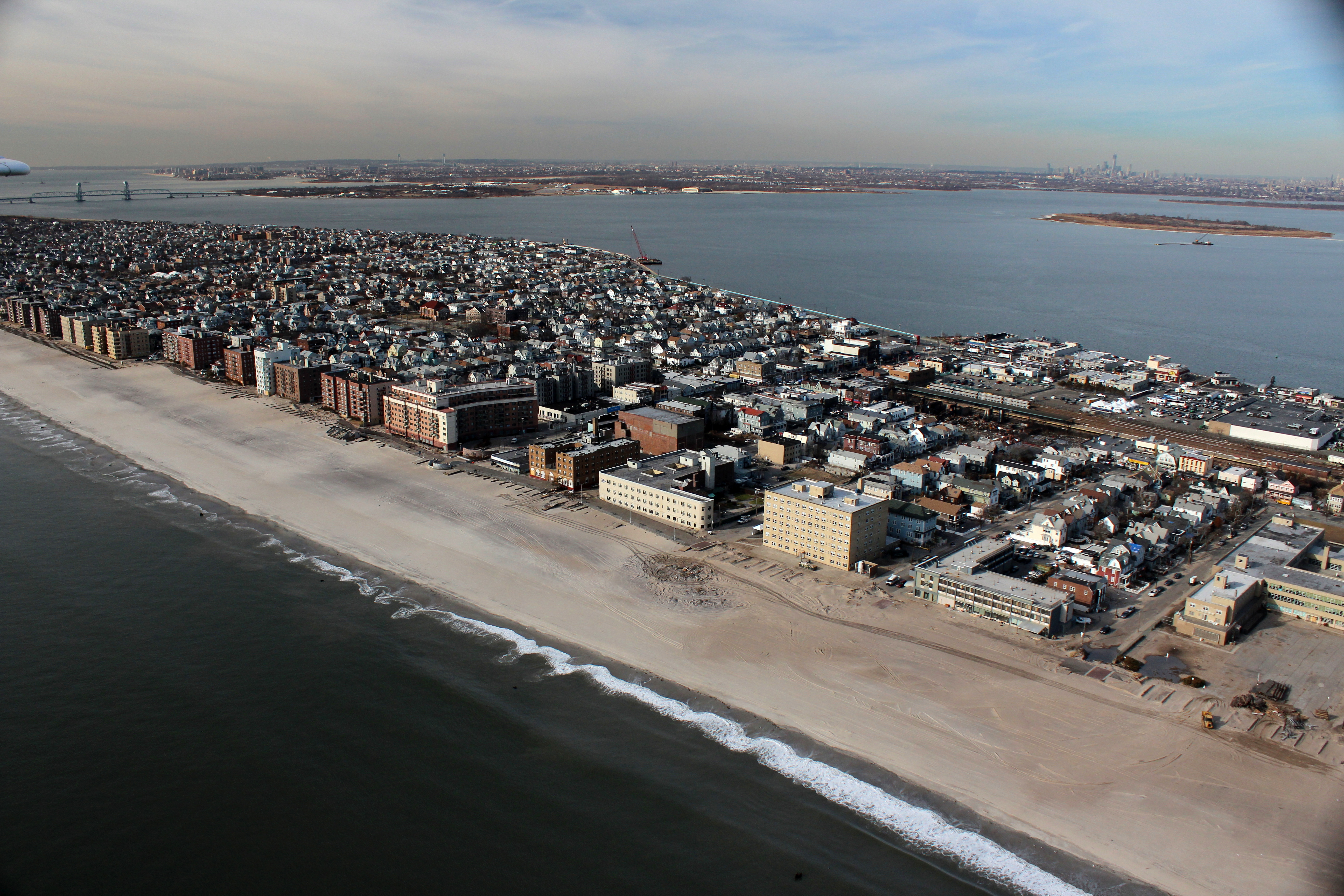 Here you can see a bit of the damage along the beach with the Manhattan skyline in the background. For more information visit U.S. EPA photo by Jeanethe Falvey